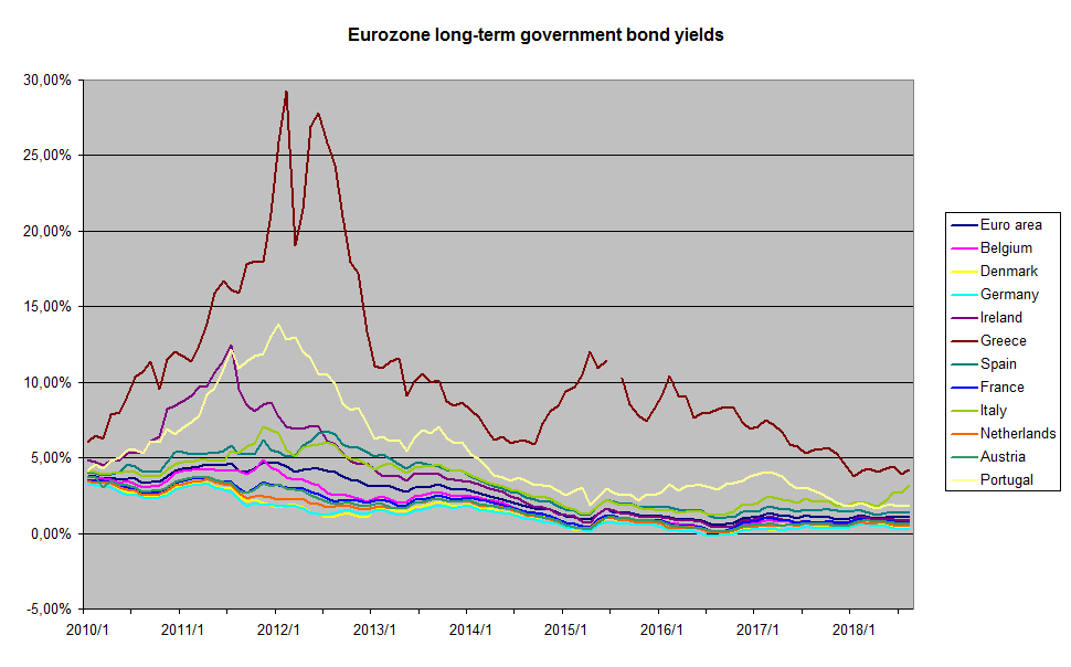 Yields of selected long-term Eurozone government bonds. Source: Eurostat, table teifm050.